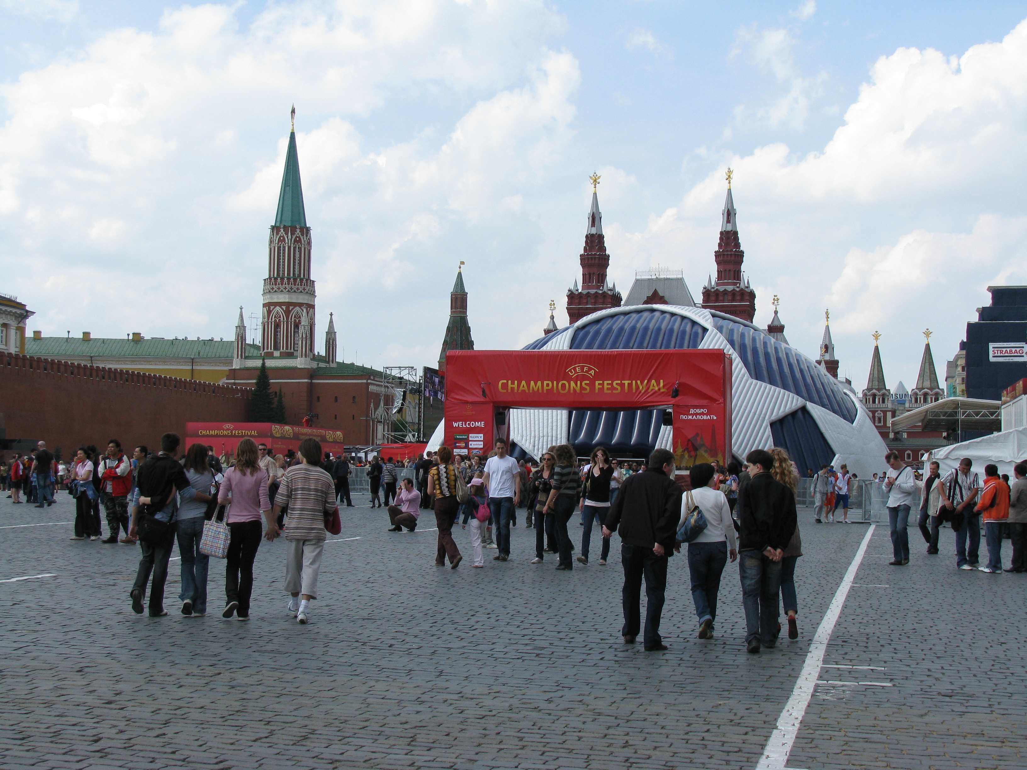 Champions Festival in Red Square, Moscow before 2008 UEFA Champions League Final